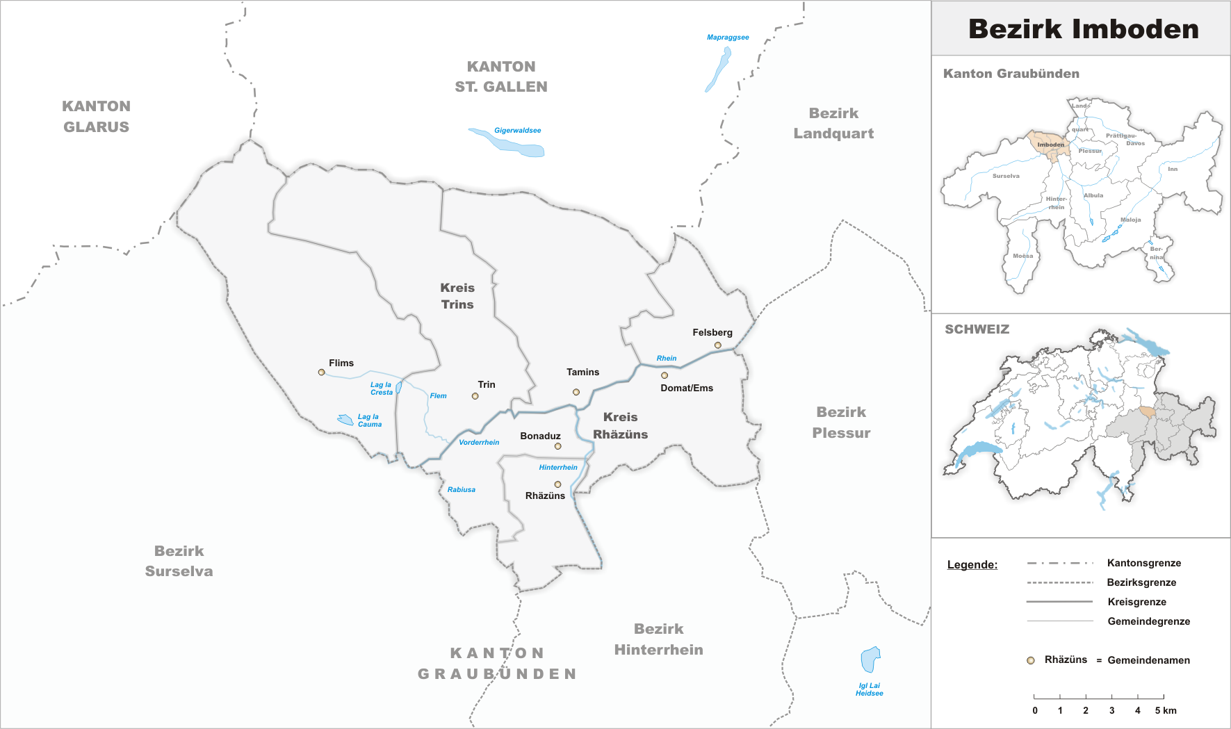 Municipalities in the district of Imboden